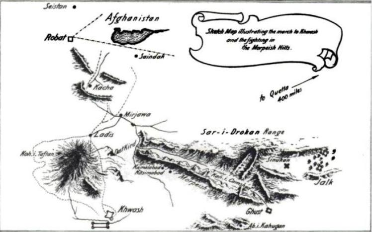 This map was first published in The Raiders of the Sarhad, by Reginald Edward Harry Dyer. 1921. Publisher: H.F. & G. Witherby. Dyer died in 1927. This image is therefore in public domain. Map Source: The Butcher of Amritsar: General Reginald Dyer By Nigel Collett. p158. Continuum International Publishing Group. 2006 ISBN: 1852855754